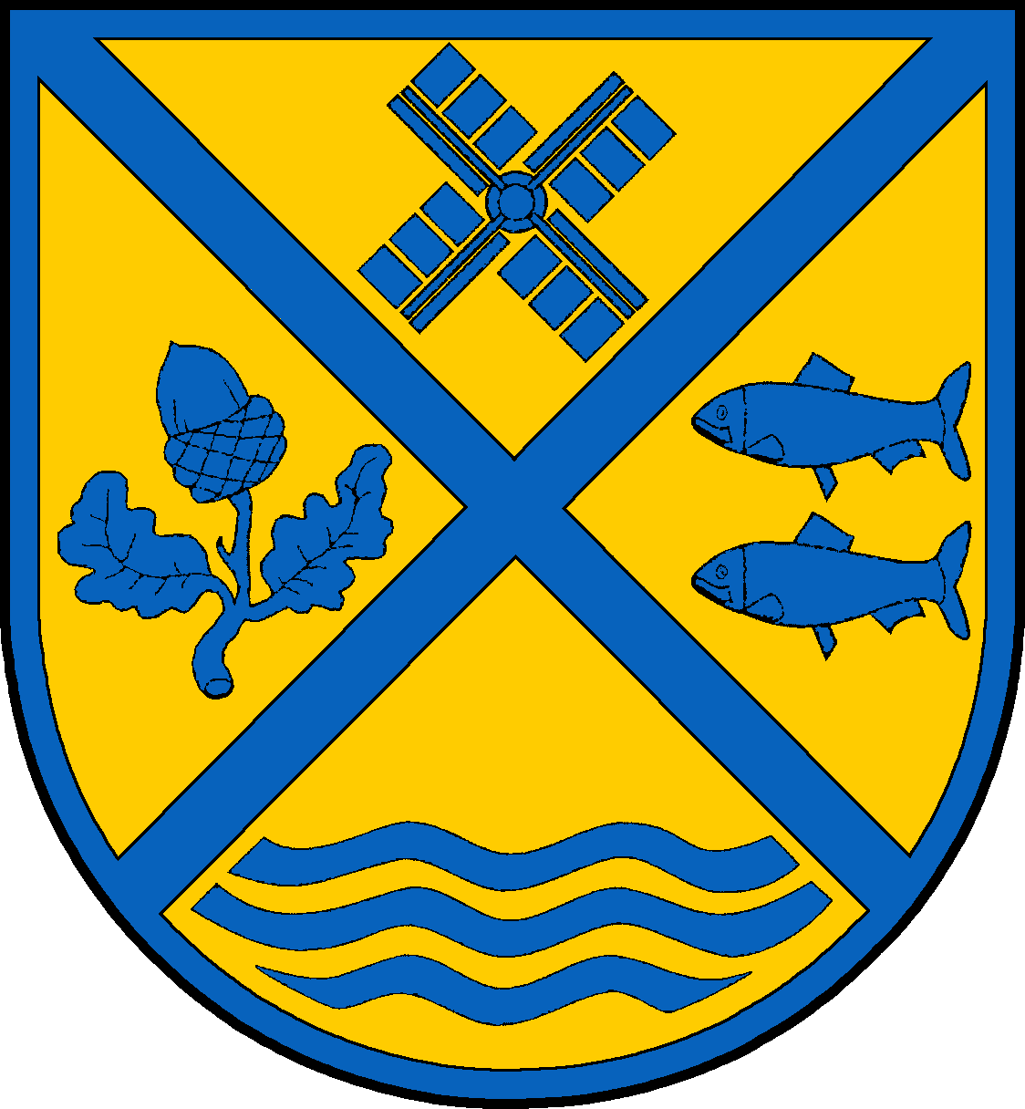 Coat of arms of the municipality Boren in Schleswig-Holstein, Germany.